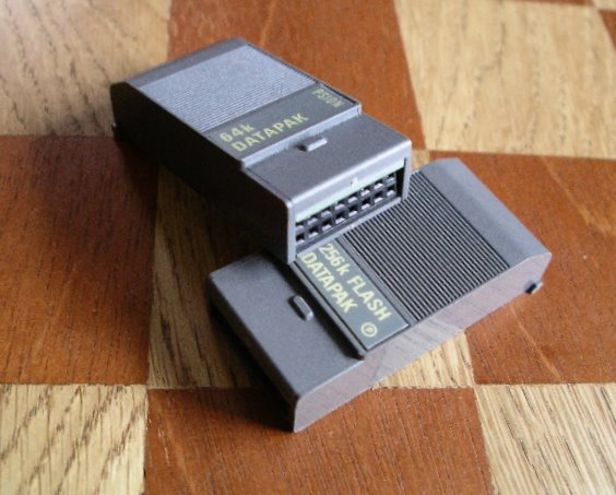 Photo taken on 10n06 of Psion organiser memory. Background is 5cm squares. Low resolution picture - fair use intended.